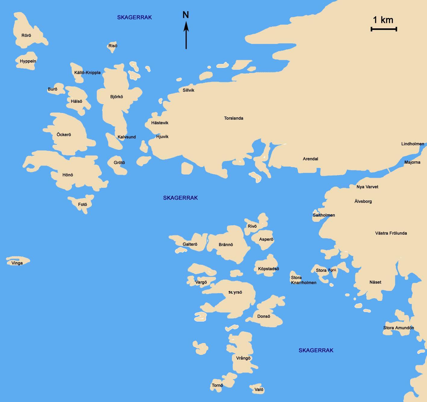 The Gothenburg skerries